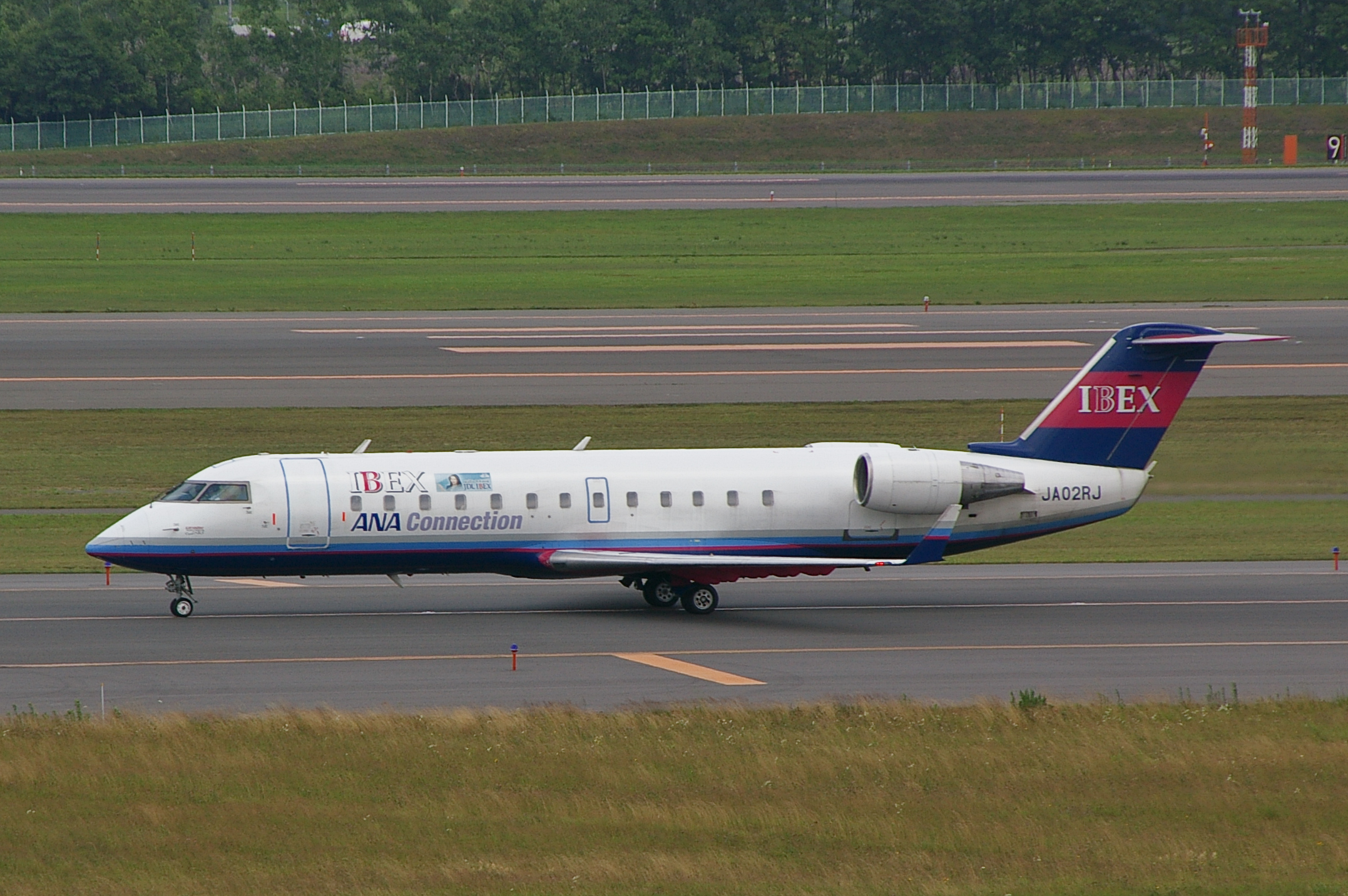 Photograph of Ibex Airlines' Bombardier CRJ-100LR (JA02RJ) taken from the observation deck of New Chitose Airport passenger terminal building in Chitose, Hokkaido, Japan.